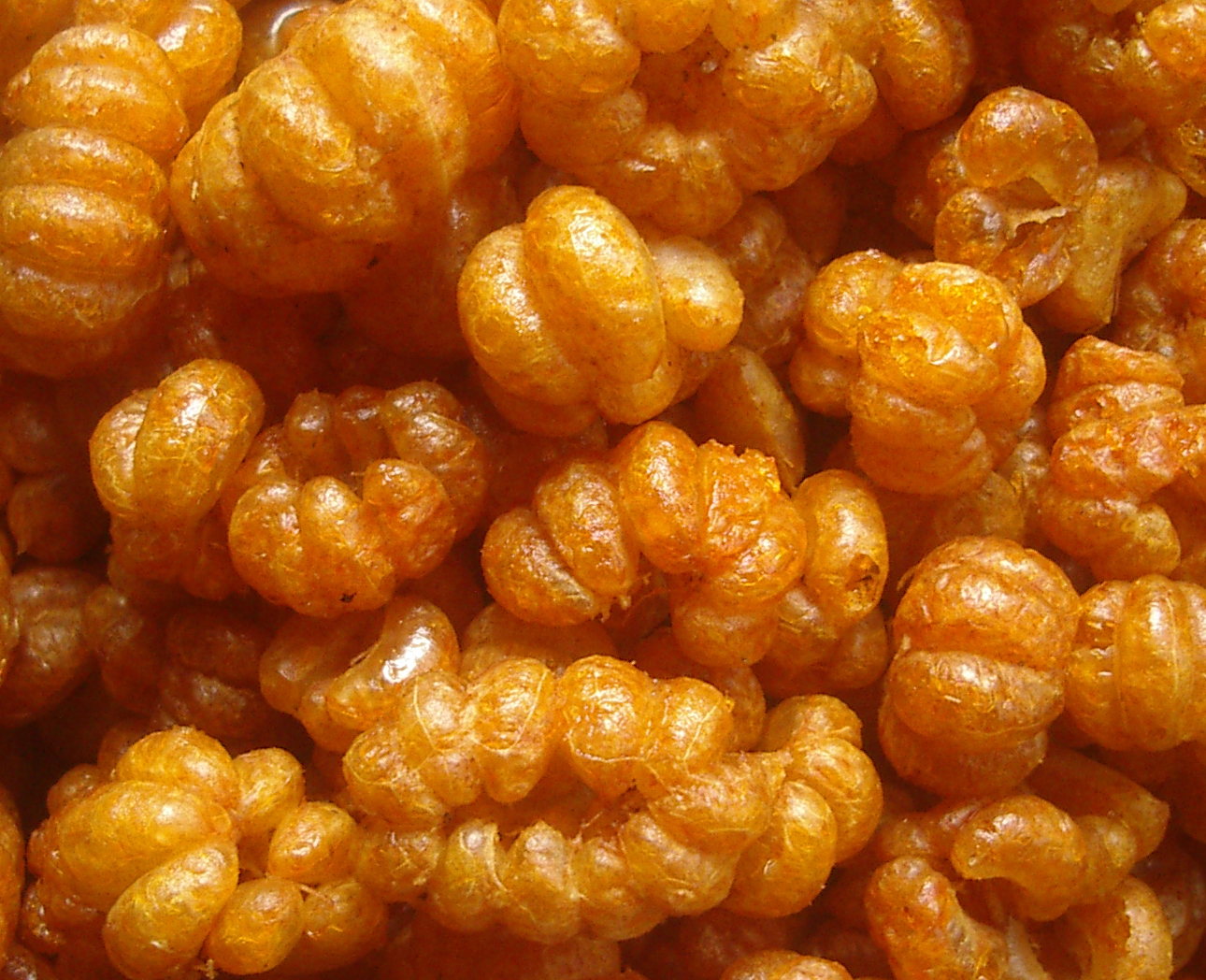 keripik jeruk